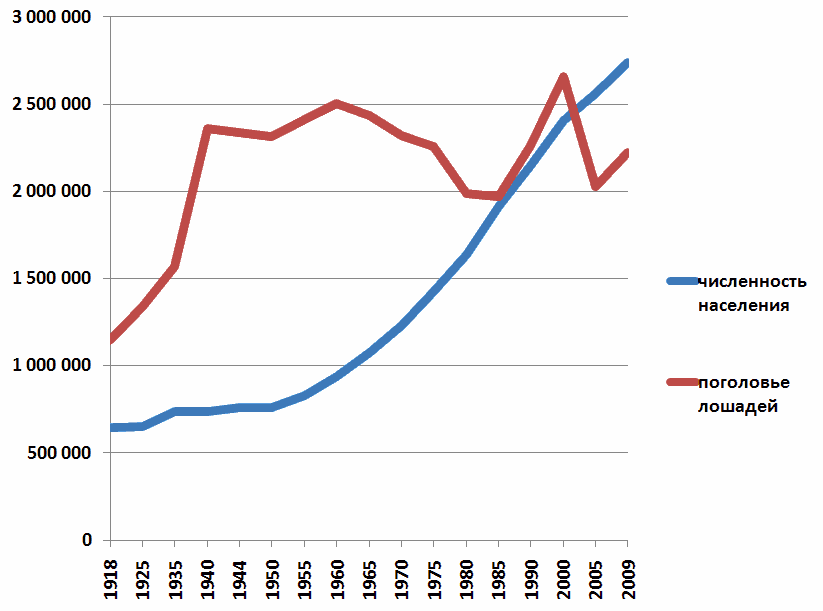 Mongolia human population (blue line) and horses headcount (red line) comparison 1918-2009